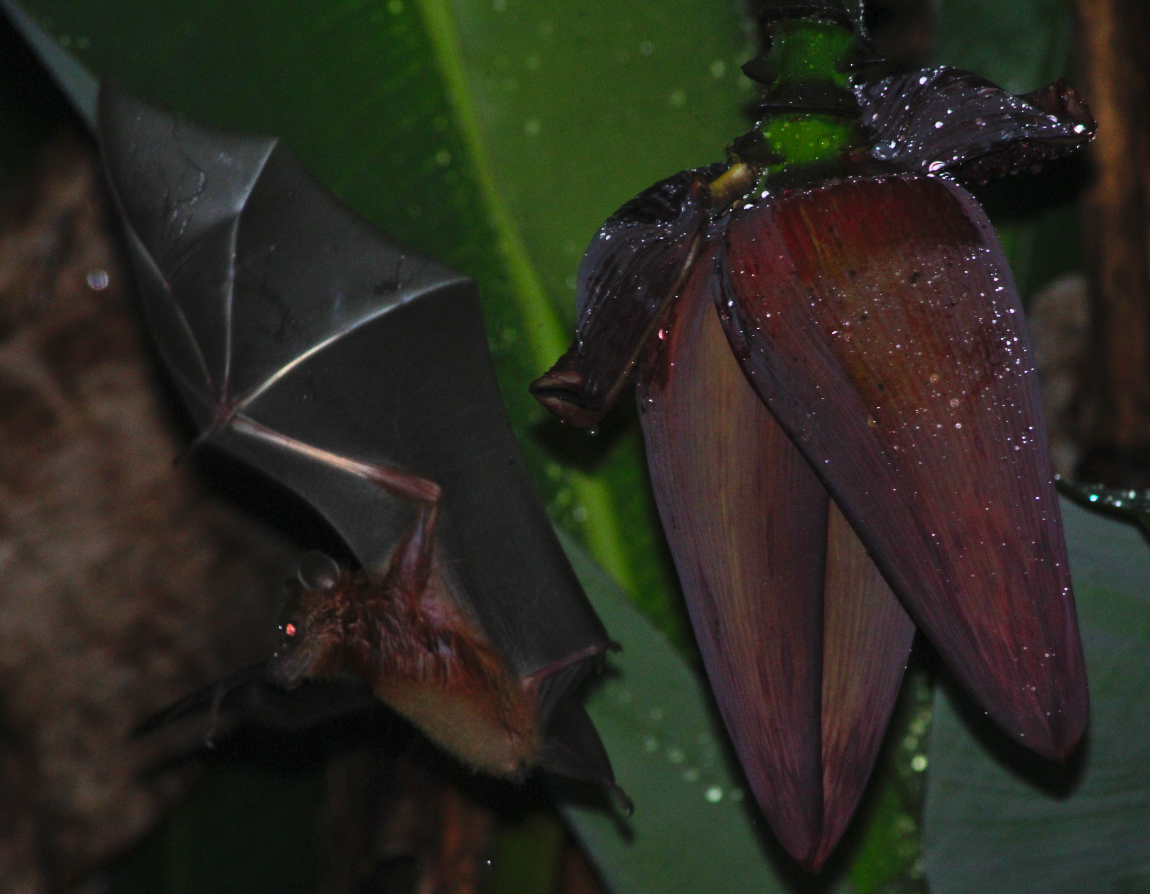 Short-nosed Indian fruit bat (Cynopterus sphinx). Photographed near Kanjirappally, Kerala.